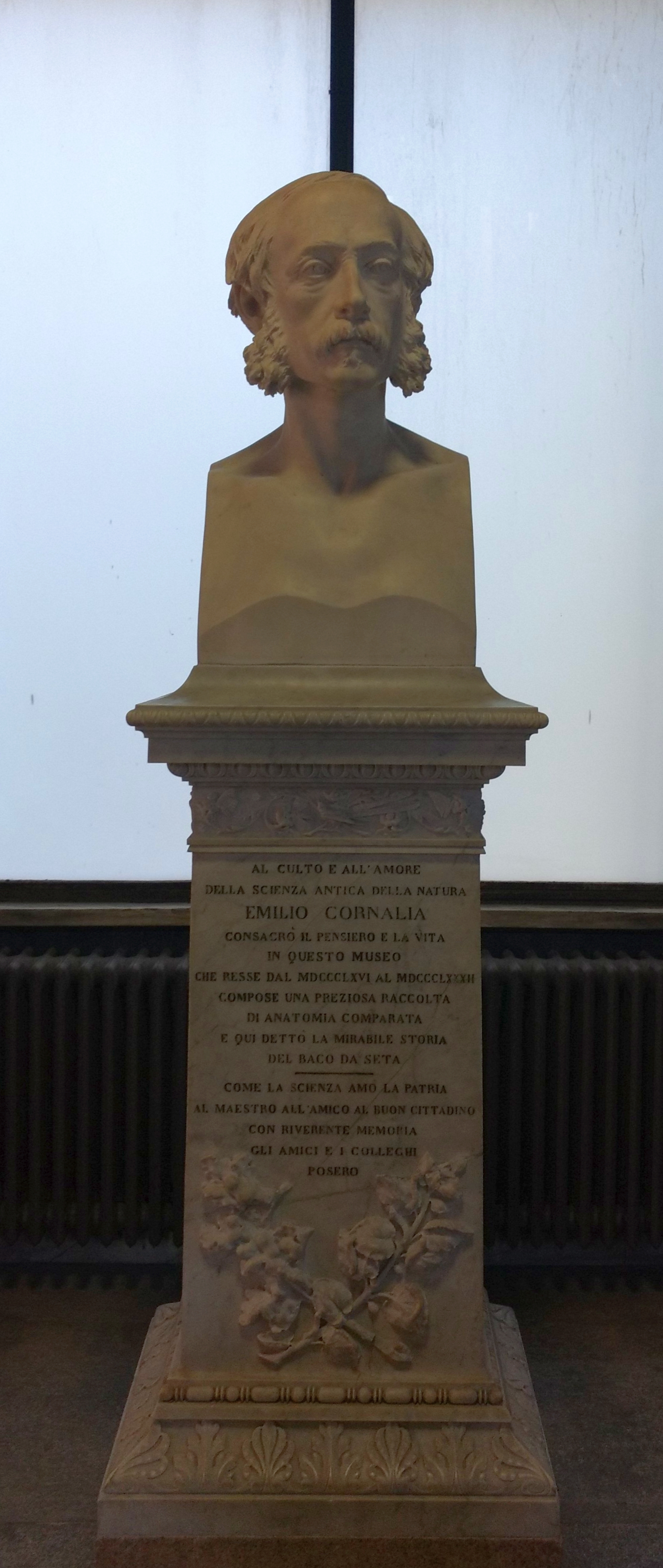 Bust of Emilio Cornalia at museum of natural history Milan